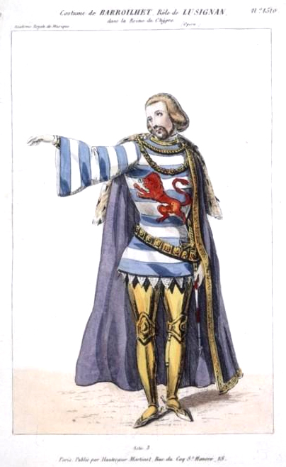 Costume design for Paul Barroilhet as Jacques de Lusignan in Act3 of the original production of Halévy's 1841 grand opera La reine de Chypre. [The original image has been cropped, and the brightness and contrast increased.]